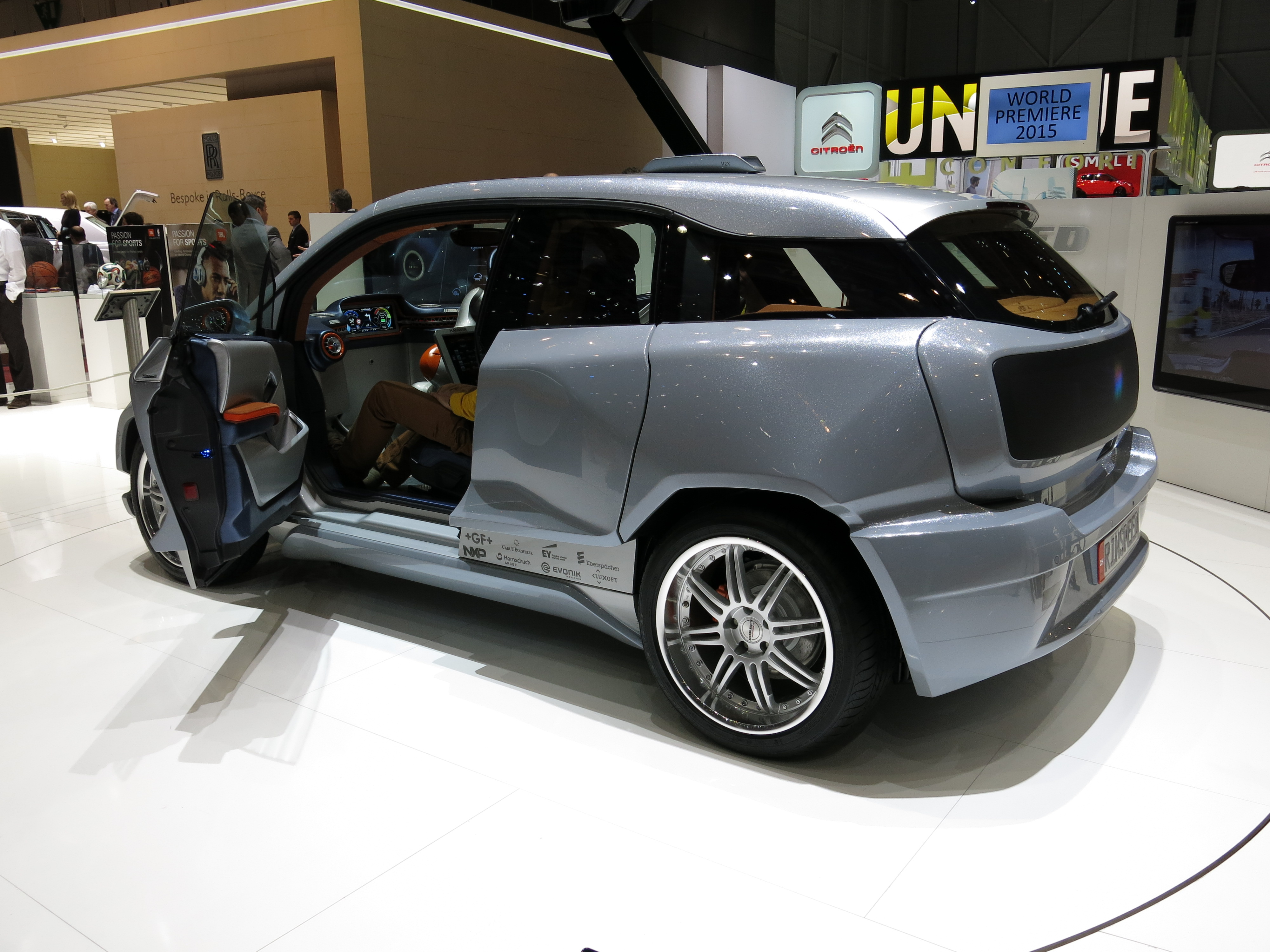 Rinspeed Budii at the Geneva Motor Show 2015 (photo taken on the first press day)